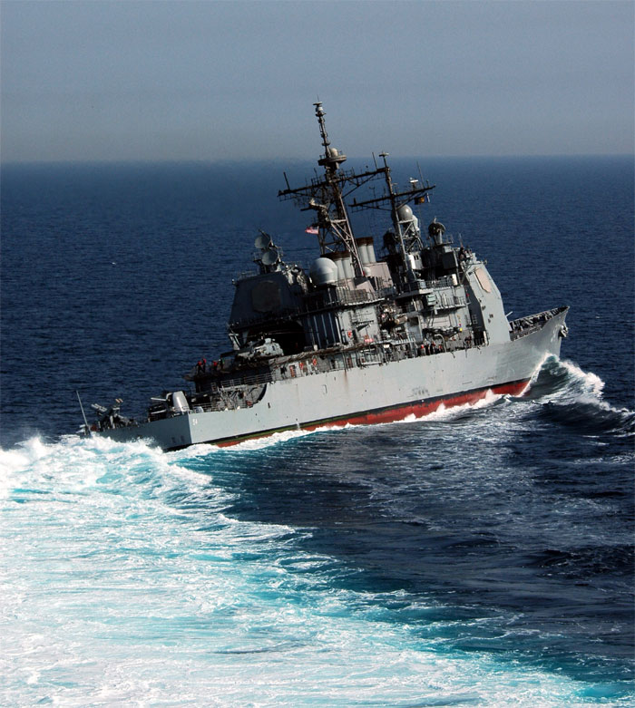 050401-N-5902H-001 Persian Gulf (1 April 2005) – The Ticonderoga-class guided missile cruiser USS Antietam conducts a high-speed turn after conducting a refueling at sea. Antietam is assigned to the USS Carl Vinson Carrier Strike Group, currently conducting operations in support of multi-national forces in Iraq and maritime security operations in the Persian Gulf. Carl Vinson will end its deployment with a homeport shift to Norfolk, and will conduct a three-year refuel and complex overhaul. (cropped)